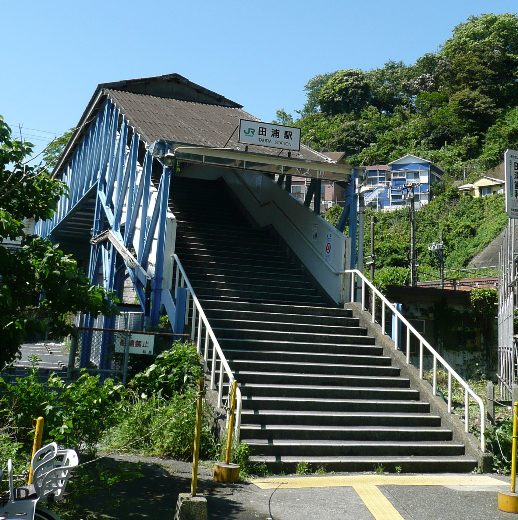 The north entrance to Taura Station on the Yokosuka Line in Kanagawa Prefecture, Japan